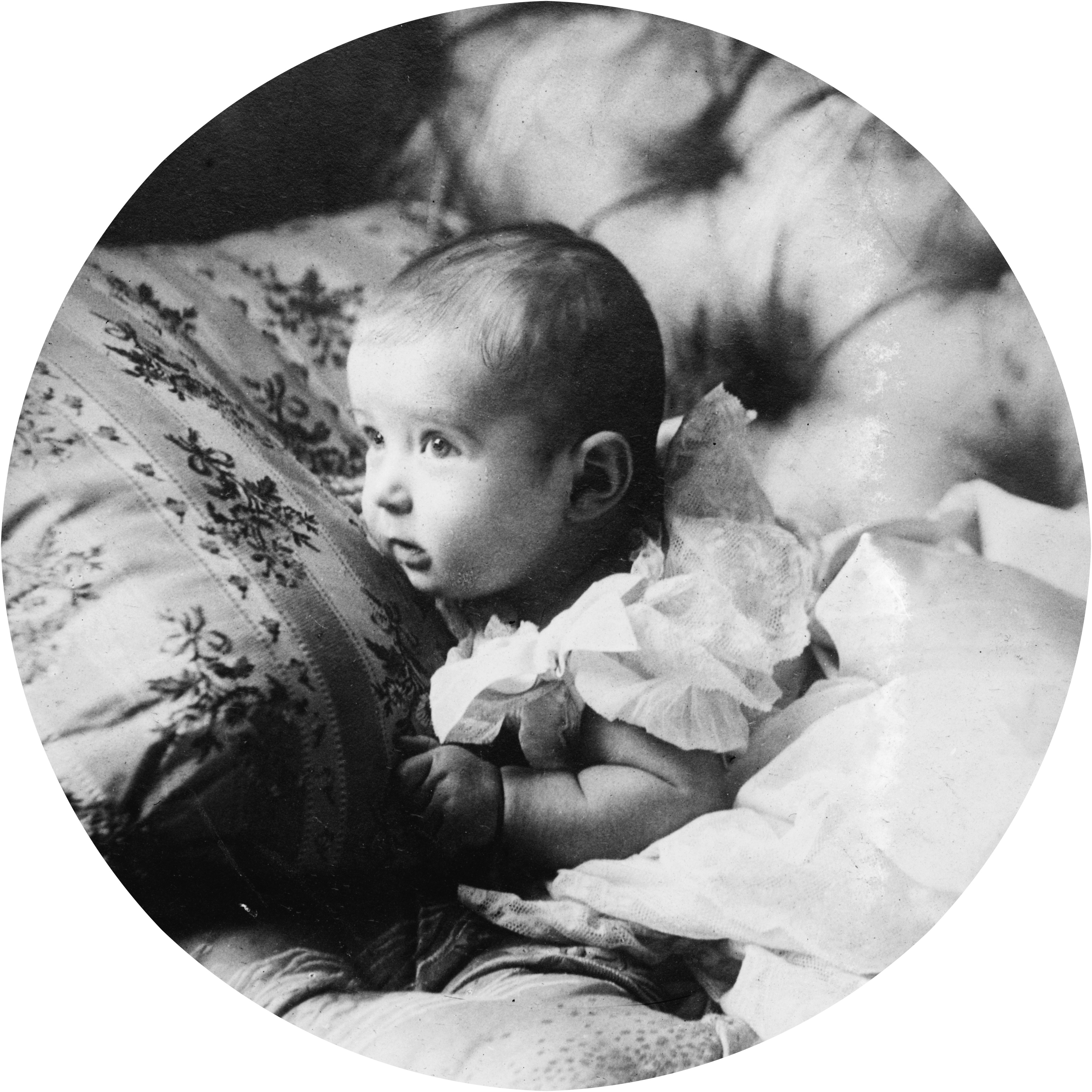 Alexei Nikolaevich, Tsarevich of Russia